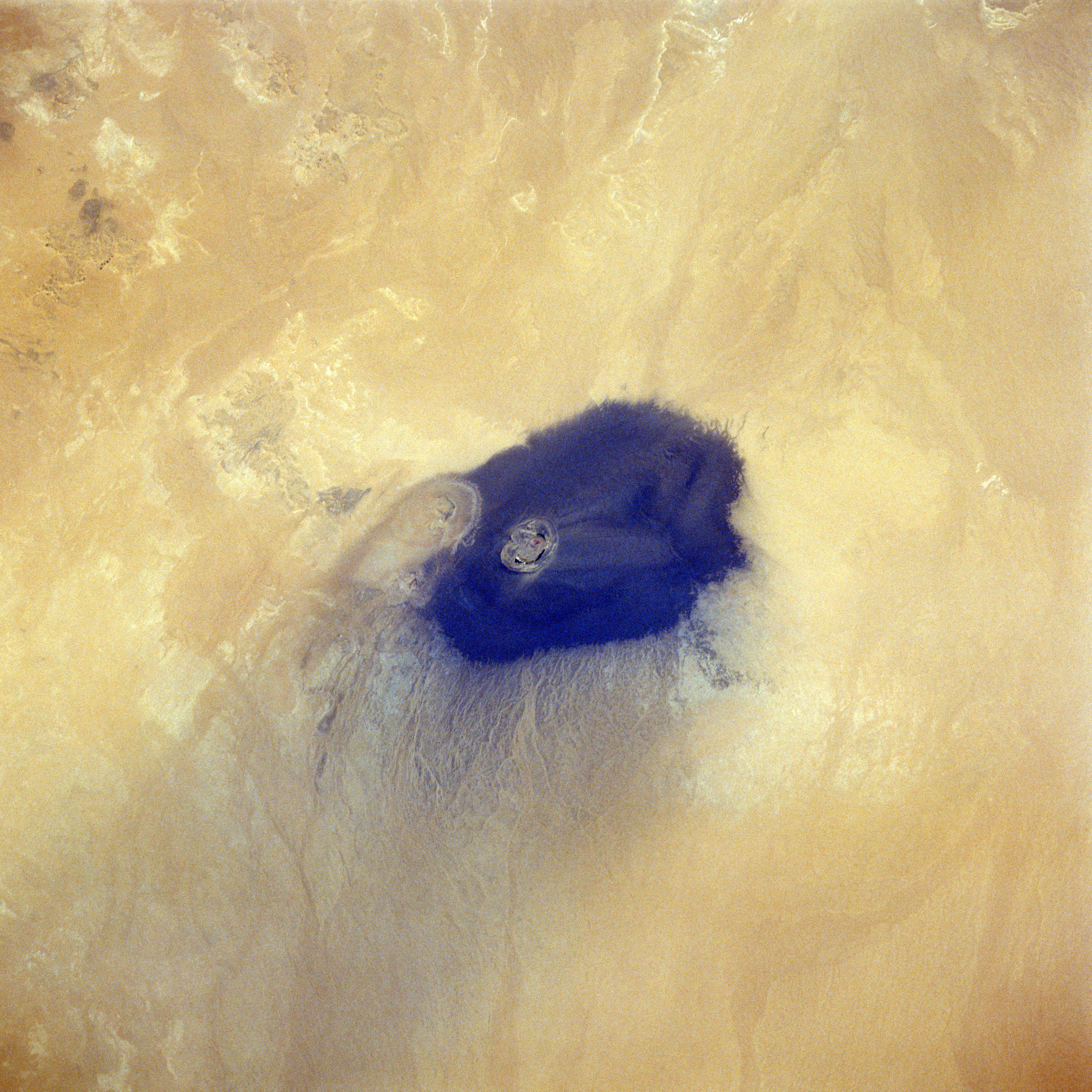 Waw An Namus (aka Uau En Namus) volcano in south-central Libya. Photographed from the Space Shuttle, mission STS052.